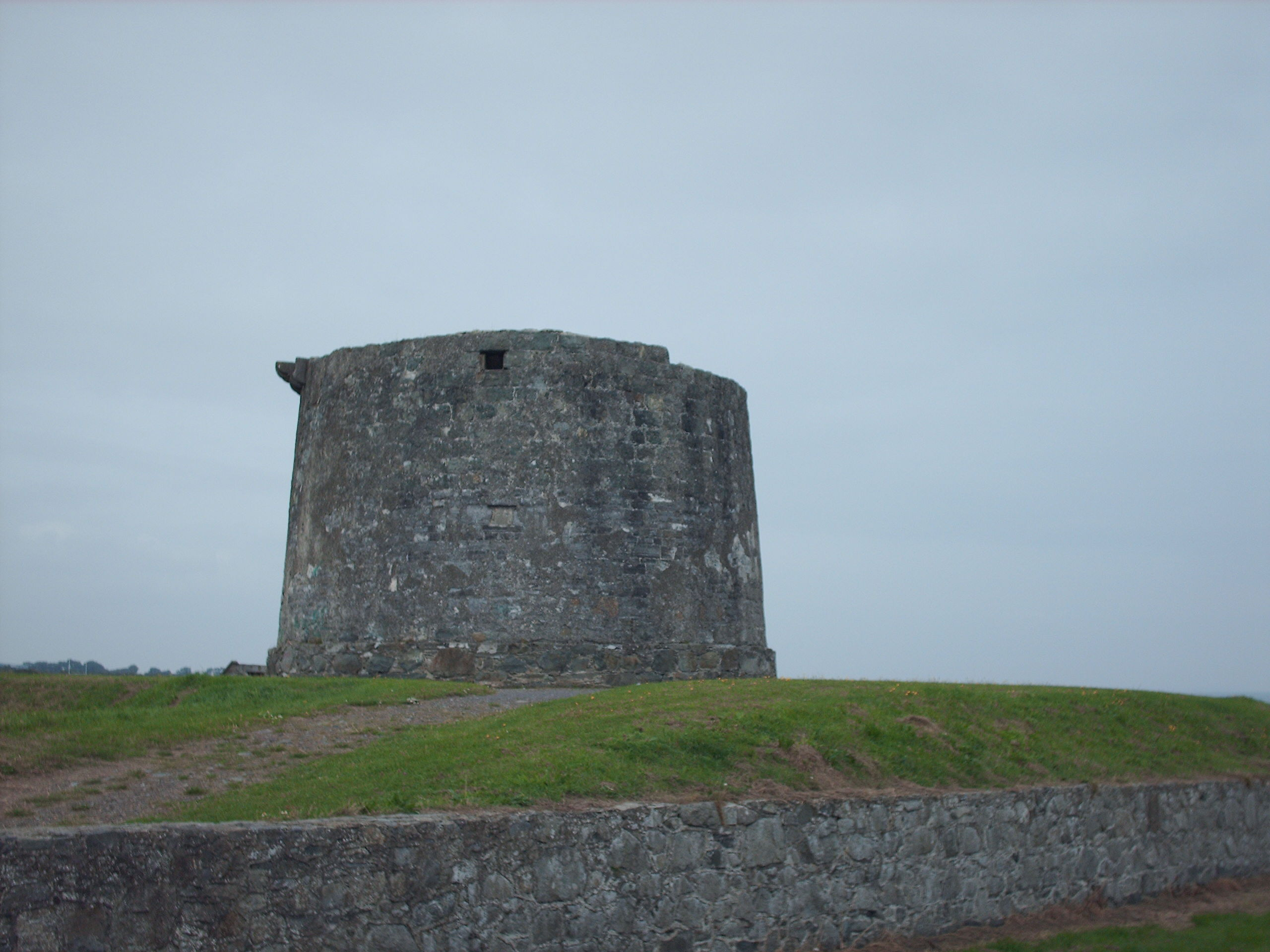 Martello Tower, Balbriggan, Ireland check usage